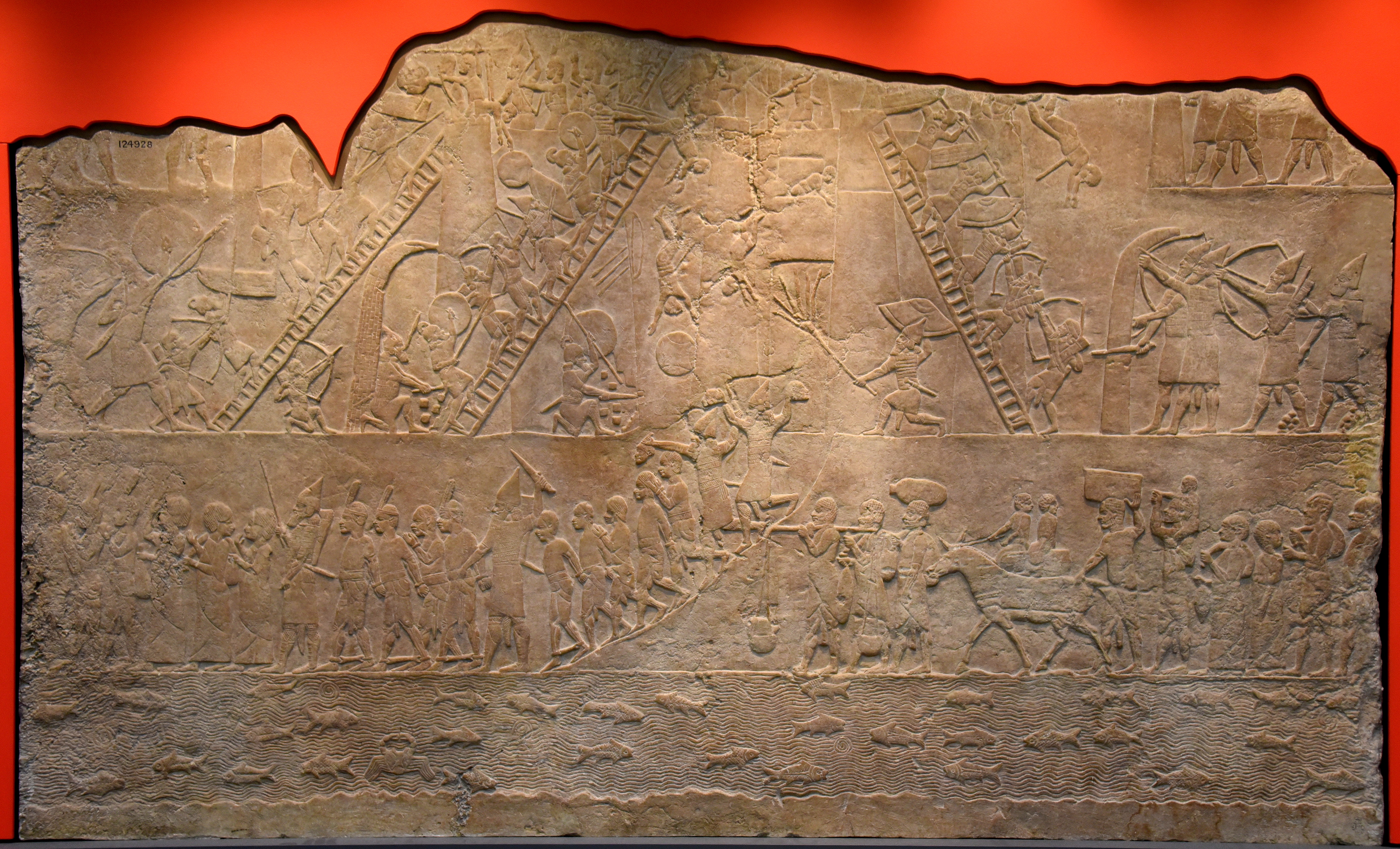 This gypsum panel shows the Assyrian army attacking the Egyptian city of Memphis and commemorates the final victory of the Assyrian king Ashurbanipal II over the Egyptian king Taharqa in 667 BCE. This wall slab was originally painted for the interior walls of Ashurbanipal's palace at Ninevah. At the top, the overwhelming wave of the Assyrian army storms the Egyptian fortress tries to set fire to the gate and undermines the walls. The Nubian soldiers, recognizable by their single upright feathers on their heads, are being marched off as prisoners. Egyptian civilian prisoners are shown as a group with two children on a donkey. Below is the River Nile with fish and crabs. Neo-Assyrian Period, 645-635 BCE. Panel 17, Room M of the North Palace at Nineveh, Northern Mesopotamia, modern-day Iraq. British Museum, London.